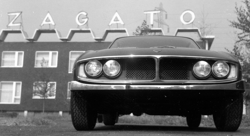 1969 Volvo GTZ (Previous description: Volvo 3000 GTZ by Zagato at the Zagato headquarters in Via Arese, Milano. 1970 (or 1969, some says))